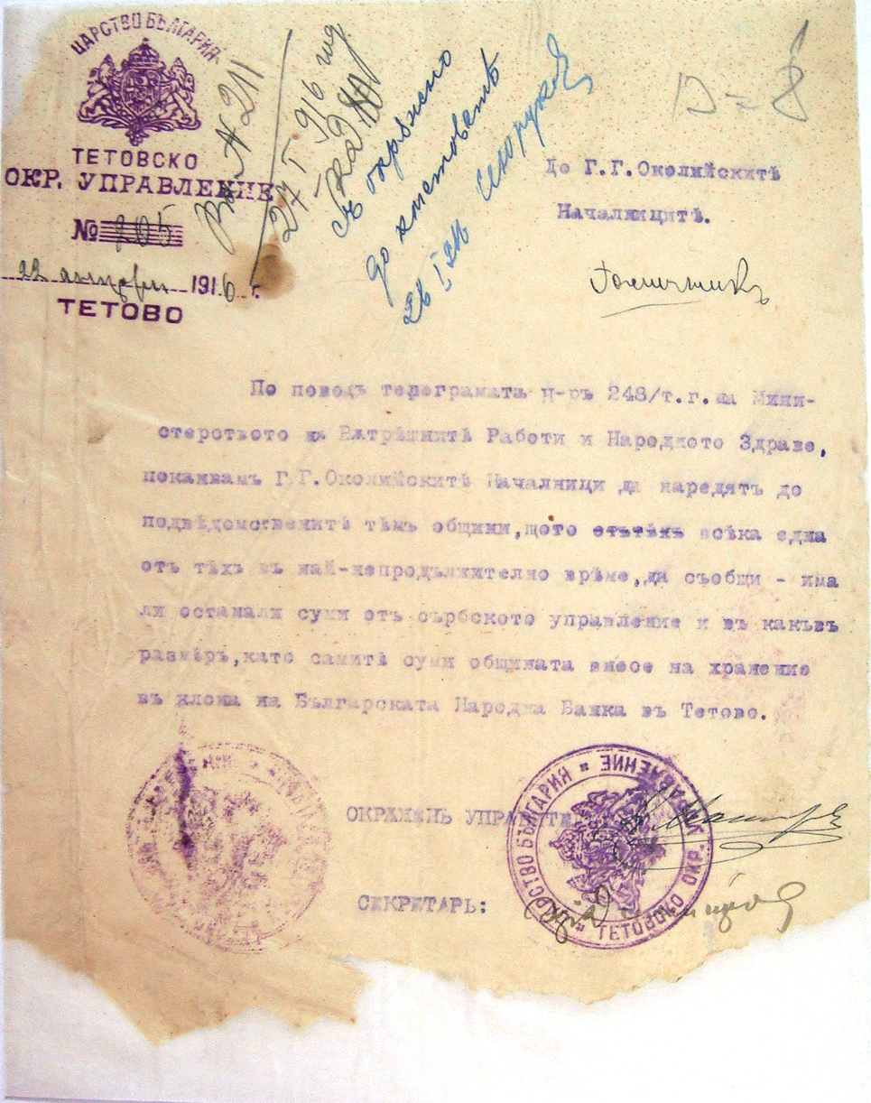 Document from Tetovo District with order to the officials from the district. The document is from January 22, 1916, when Tetovo District was under the Kingdom of Bulgaria. This media file is produced by Wikipedian in Residence in Category:Wikipedian in Residence at DARM in 2016.